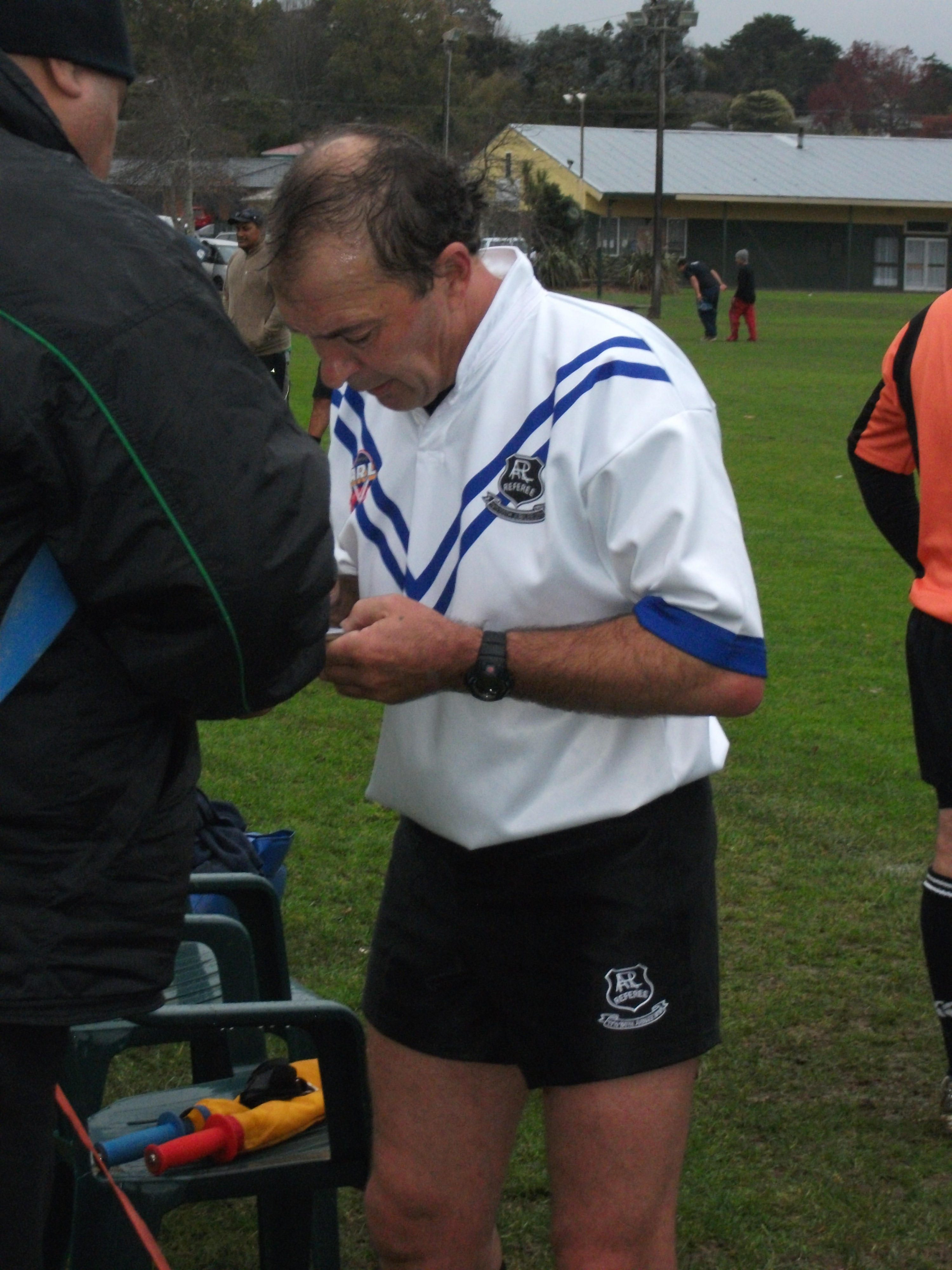 An Auckland Rugby League Referee in 2010. Taken at the Pt Chev v Waitemata Seagulls Phelan Shield match.